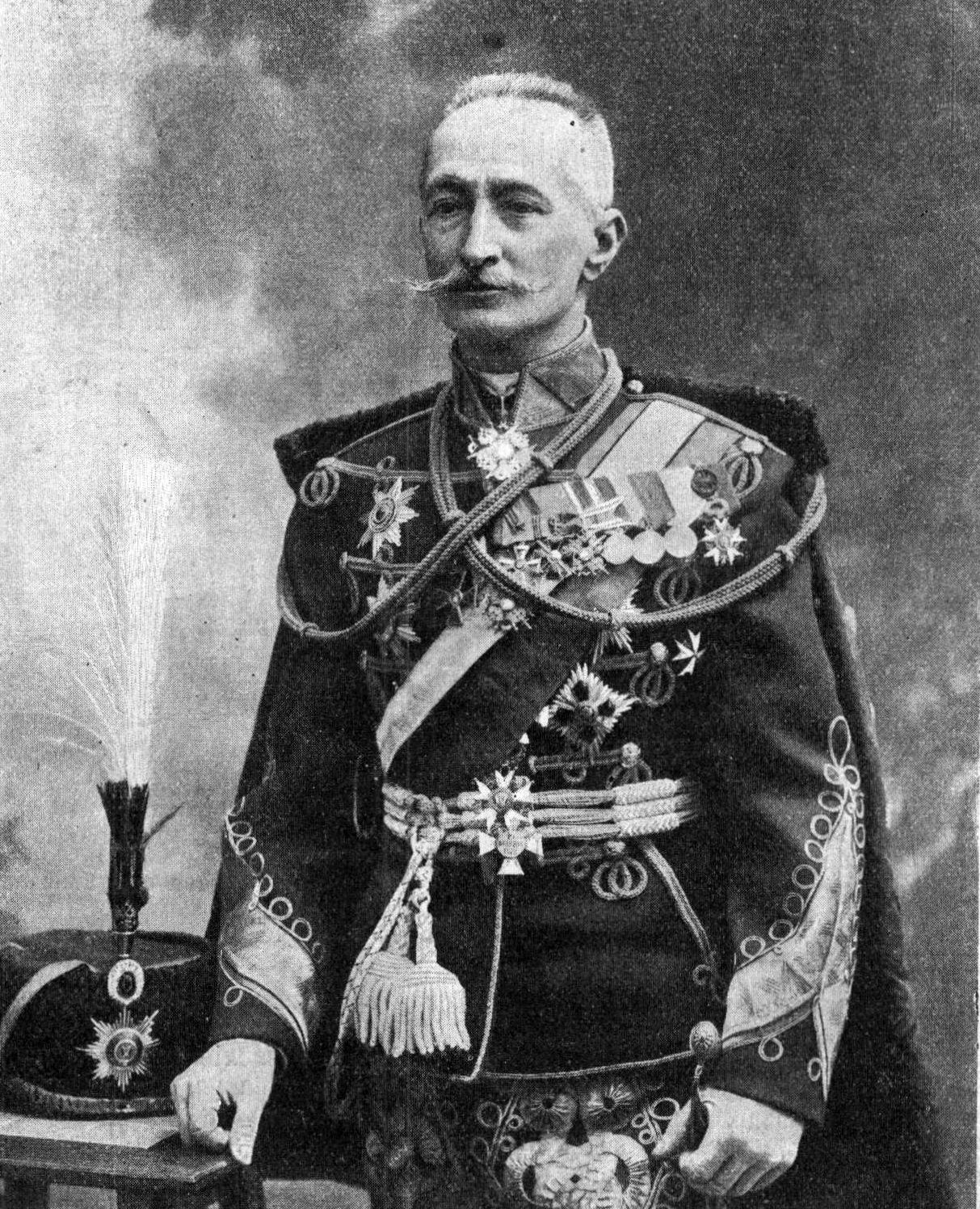 Brusilov, Aleksey Alekseyevich - Russian General (b.1853-d.1926)